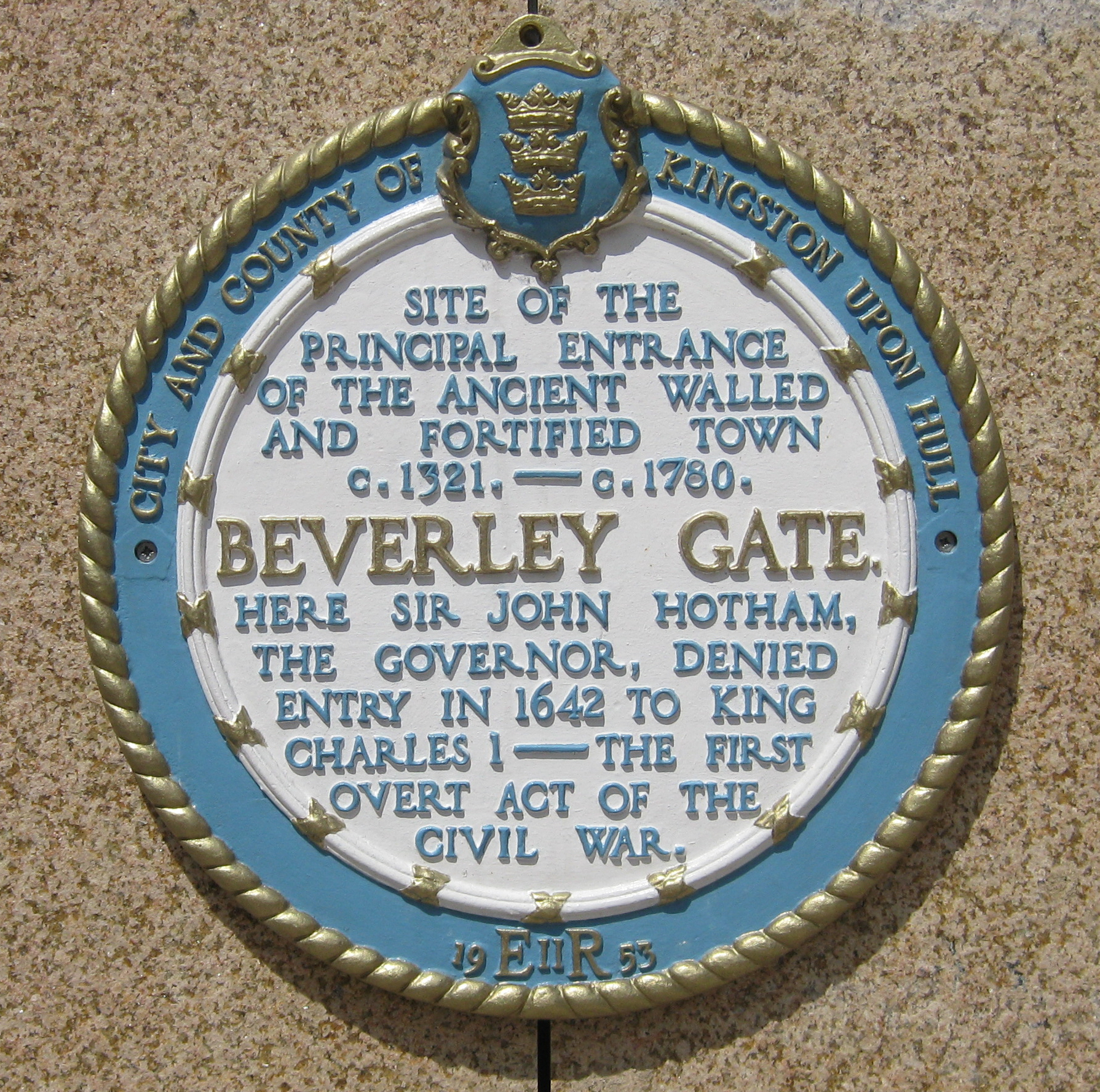 Plaque on the site of the former Beverley Gate, by the excavated remnants of fortifications, Hull.